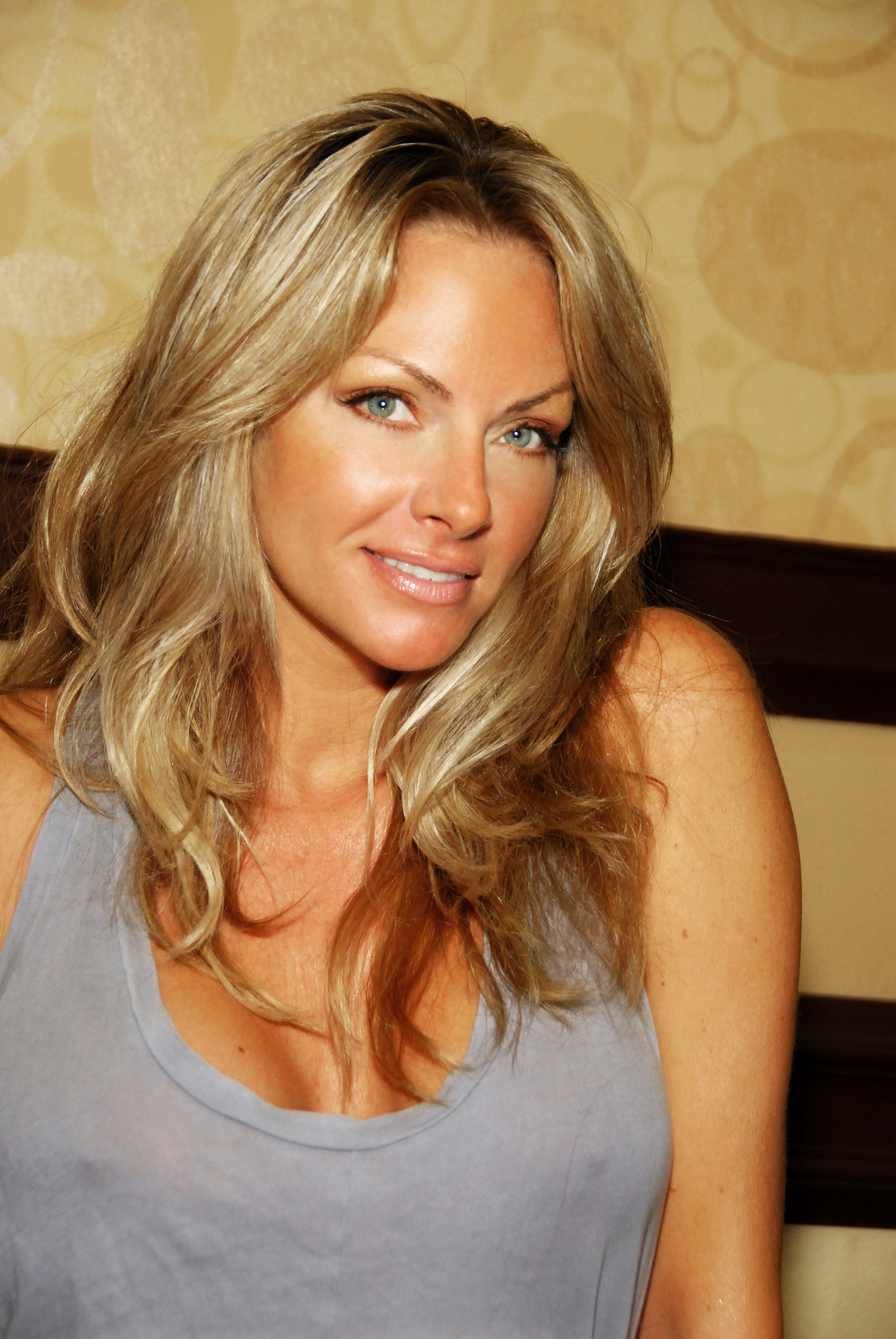 Stacy Sanches, Los Angeles, CA on October 1, 2011 - Photo by Glenn Francis of